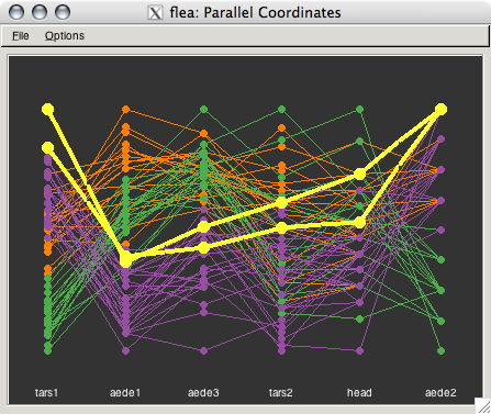 Screenshot of GGobi, showing a parallel coordinate plot.